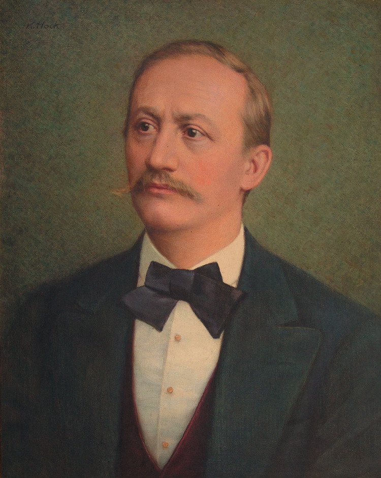 Portrait of Ferdinand Piatnik (1819-1885)